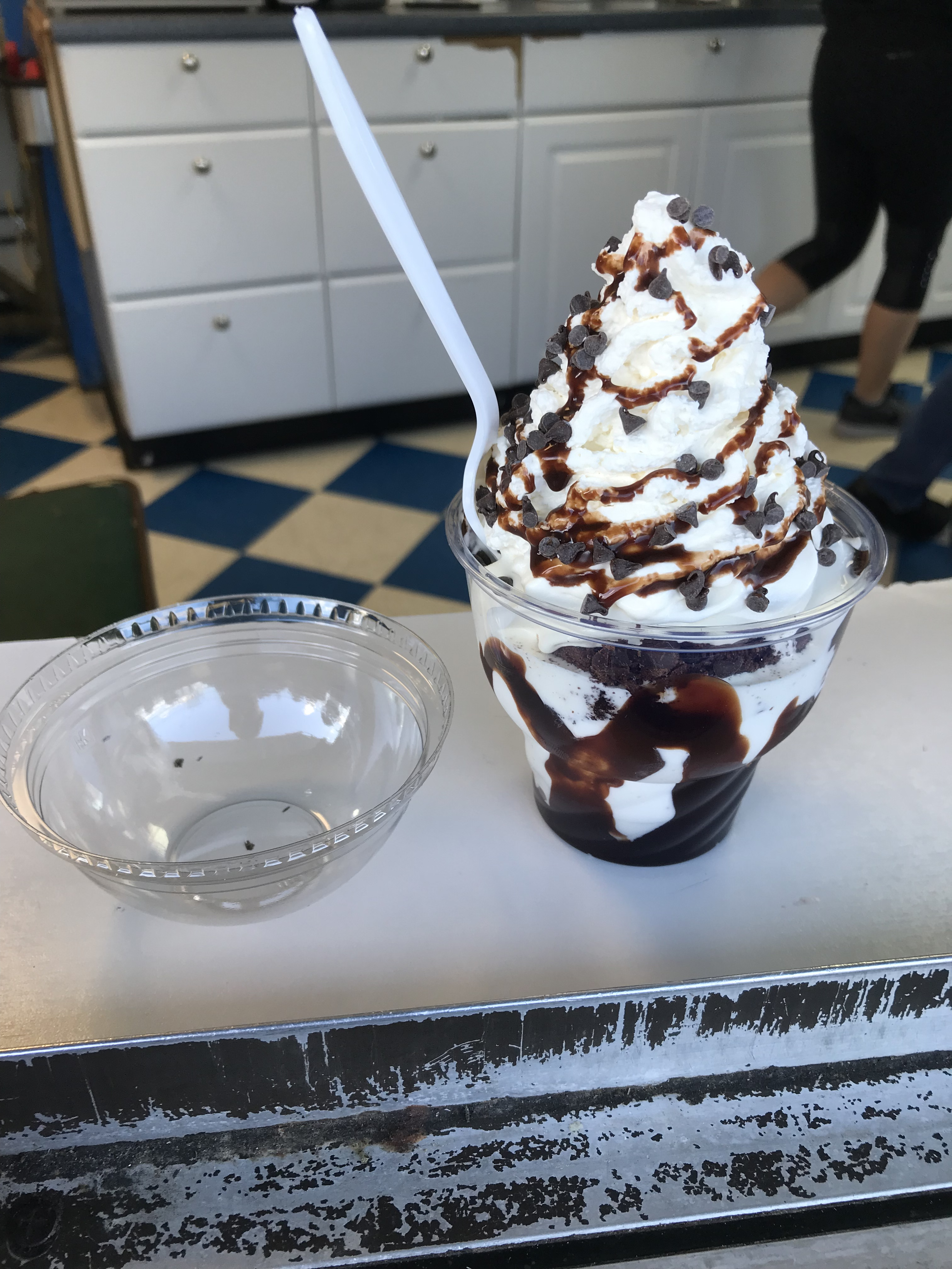 Ice cream